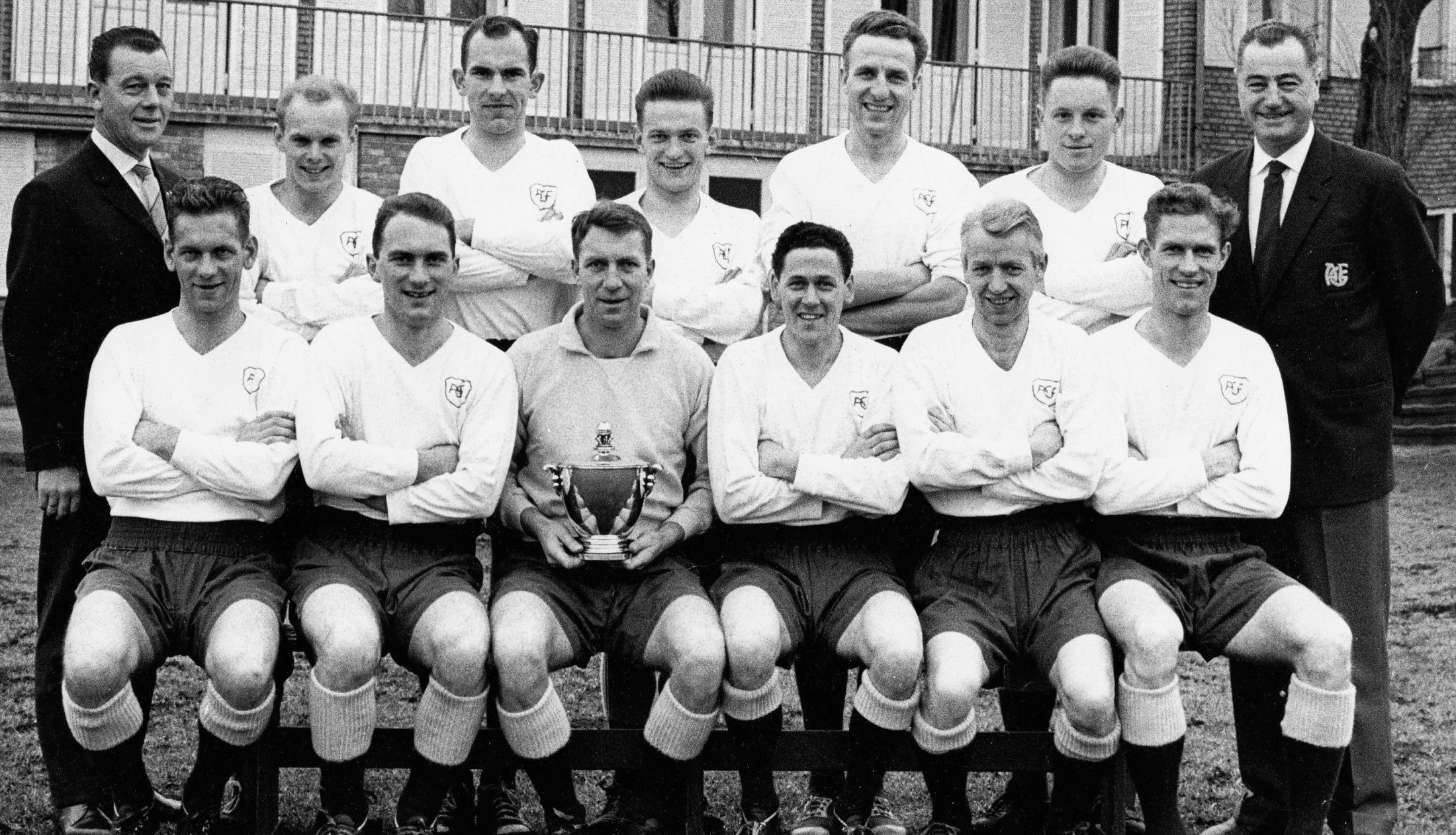 The 1960 AGF team that won the Danish championships. Standing from left: Chairman Søren Nielsen, Finn Overby, John Amdisen, John? Jensen, Aage Rou Jensen, Peter Kjær Andersen, coach Geza Toldi. Seated, from left: Erik Jensen, Erik? Christensen, Henry From, Bjarke Gundlev, Jørgen Olesen and Hans Christian Nielsen.